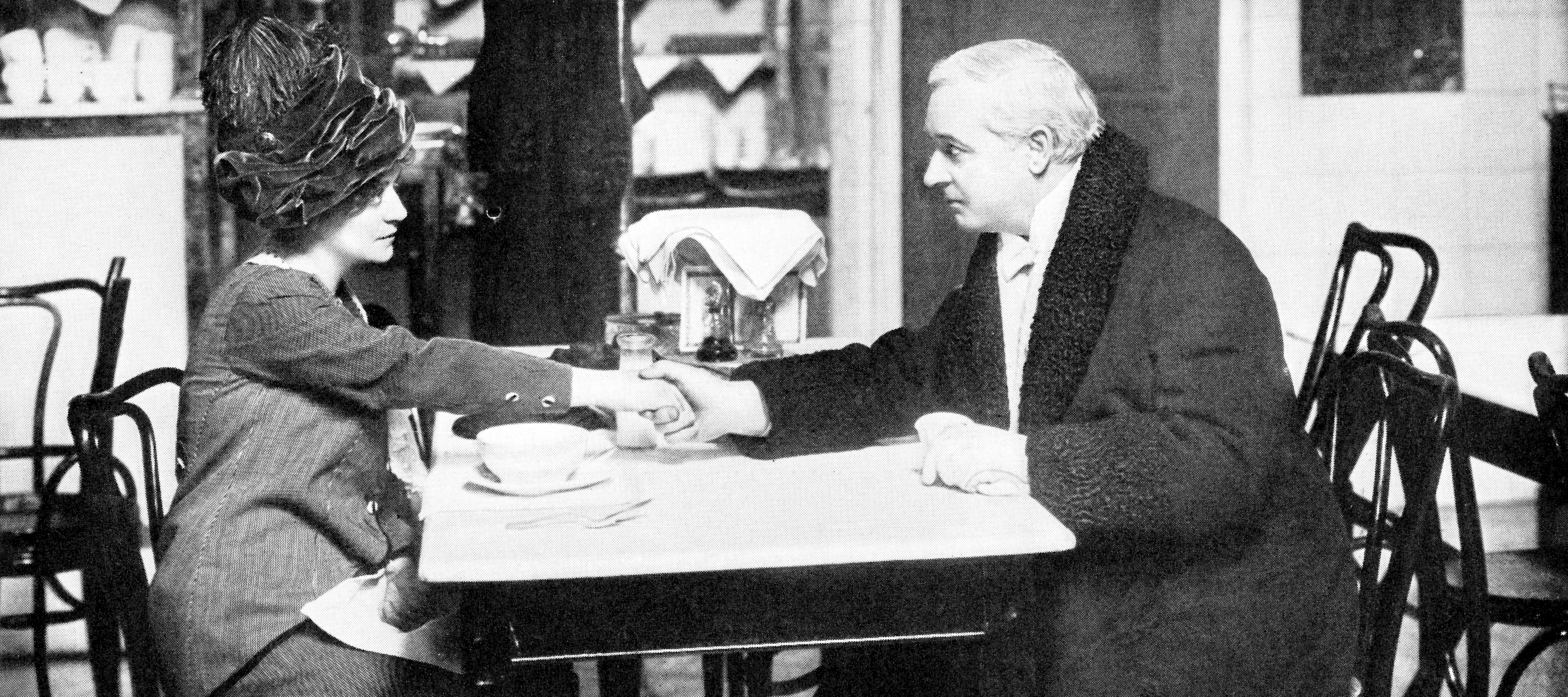 Photograph of Emma Dunn and Emmett Corrigan in the Broadway production of The Governor's Lady, produced by David Belasco and running September 1912–January 1913 More information